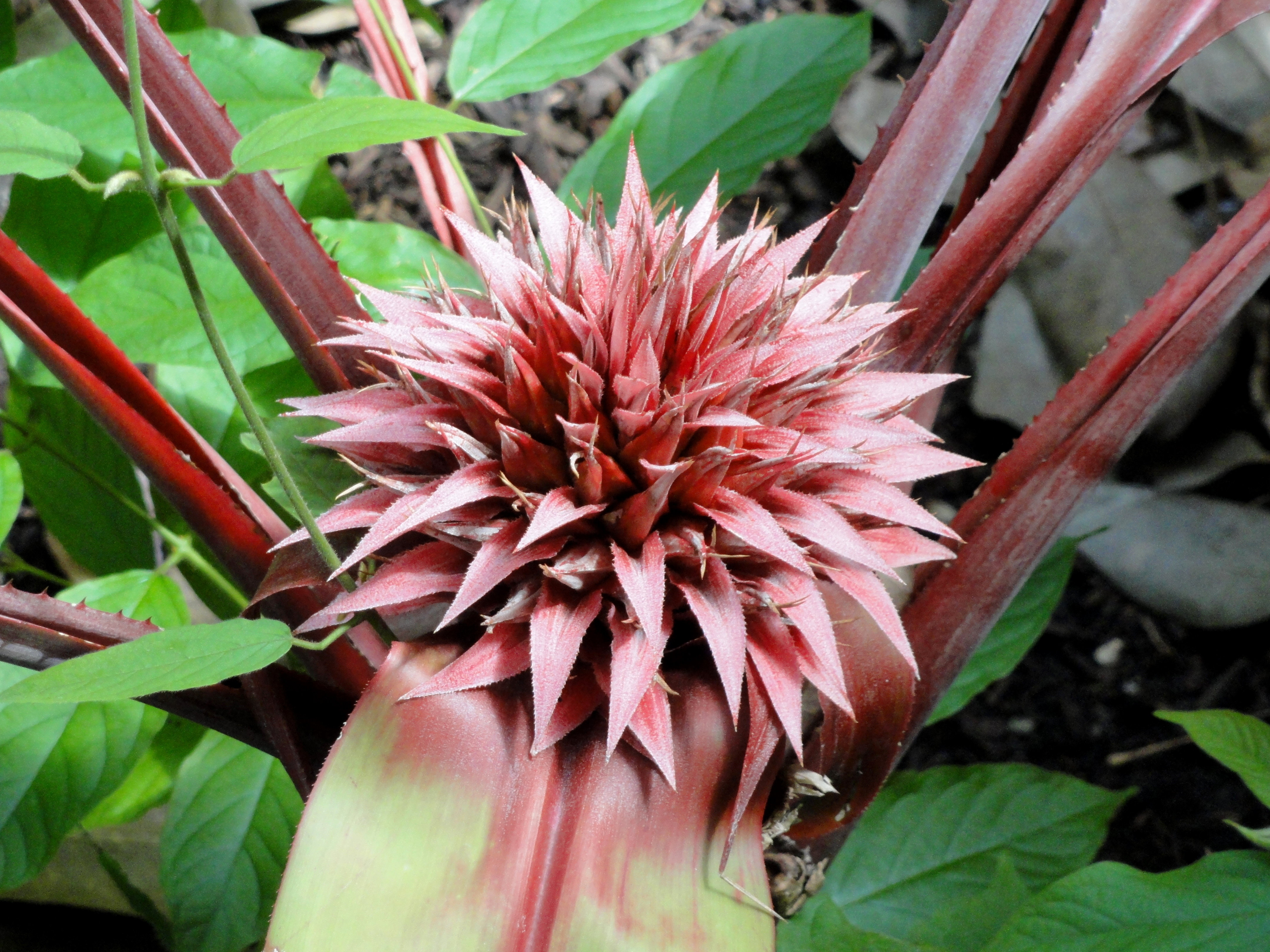 Aechmea tayoensis. Botanical specimen in the Denver Botanic Gardens, 1007 York Street, Denver, Colorado, USA.